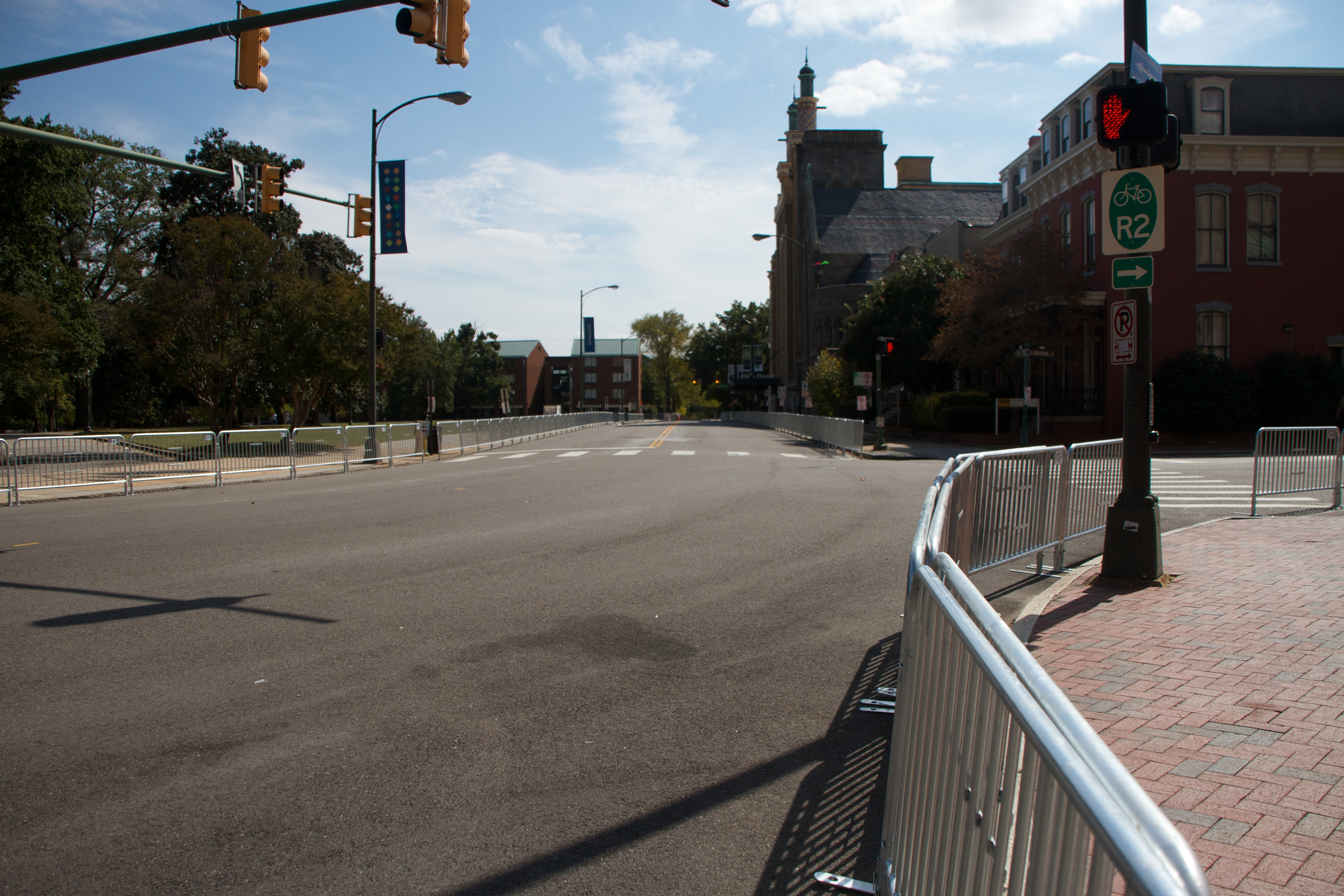 2015 UCI Road World Championships - course of the team time trial.jpg